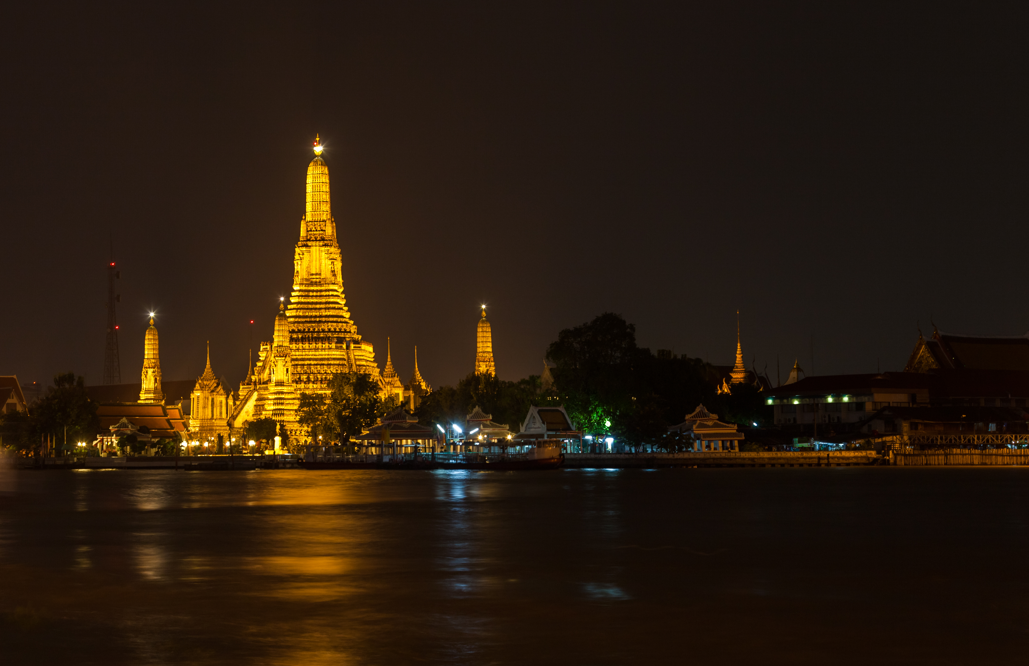 Wat Arun Temple, Bangkok, Thailand